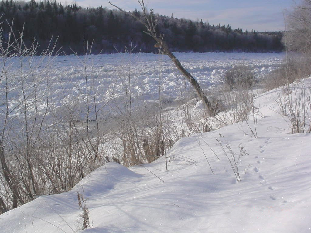 Pictured above is an ice jam along the Allagash River at Allagash, ME (ALLM1) in December 2003